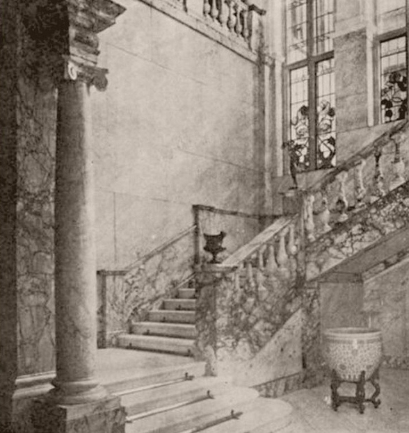 Marble staircase in the residence of Catchick Paul Chater